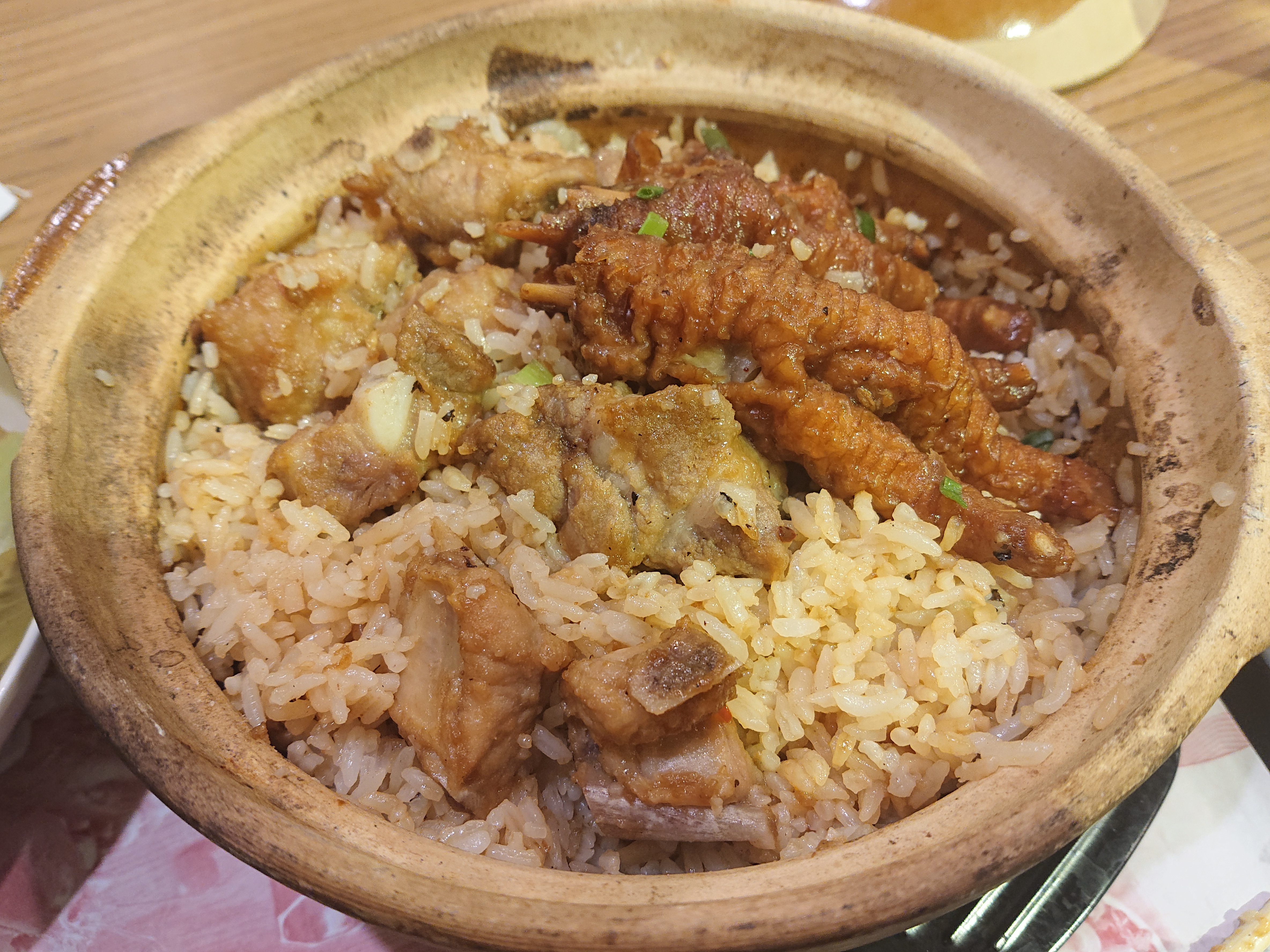 Spare Rib & Chicken Feet Claypot Rice